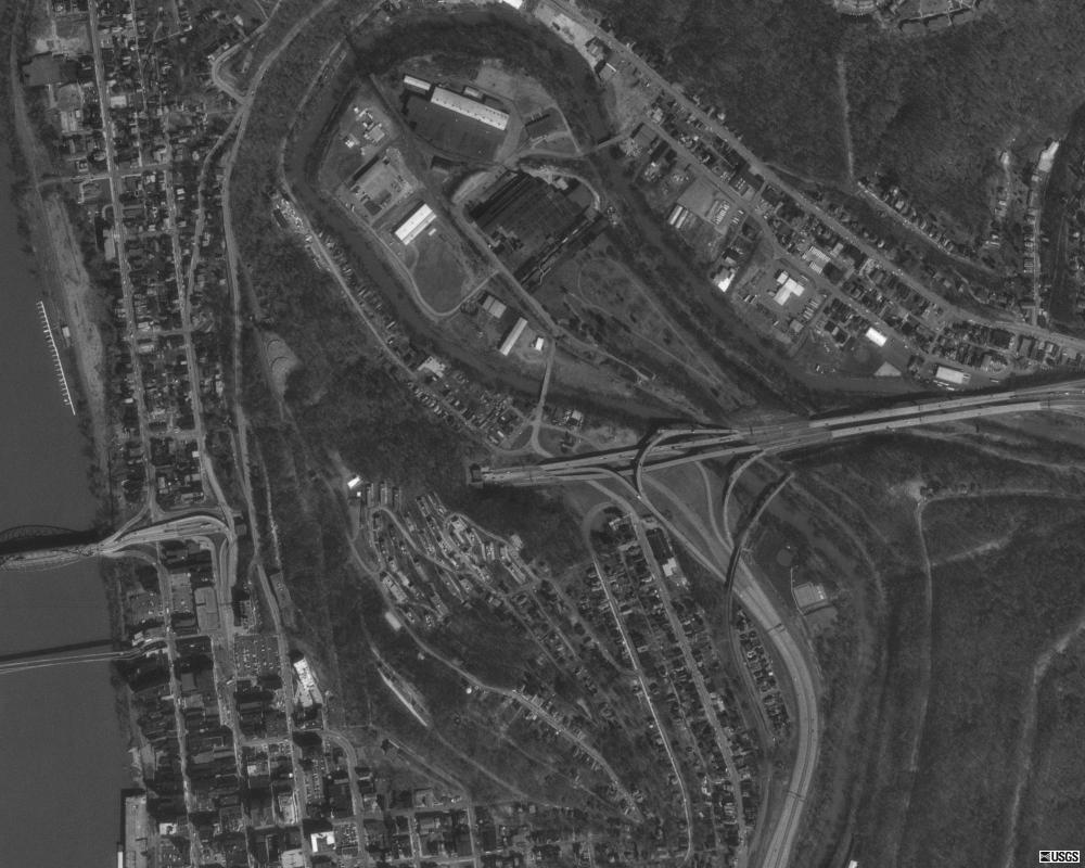 Aerial image of the Wheeling Tunnel, through Wheeling Hill in Wheeling, West Virginia.